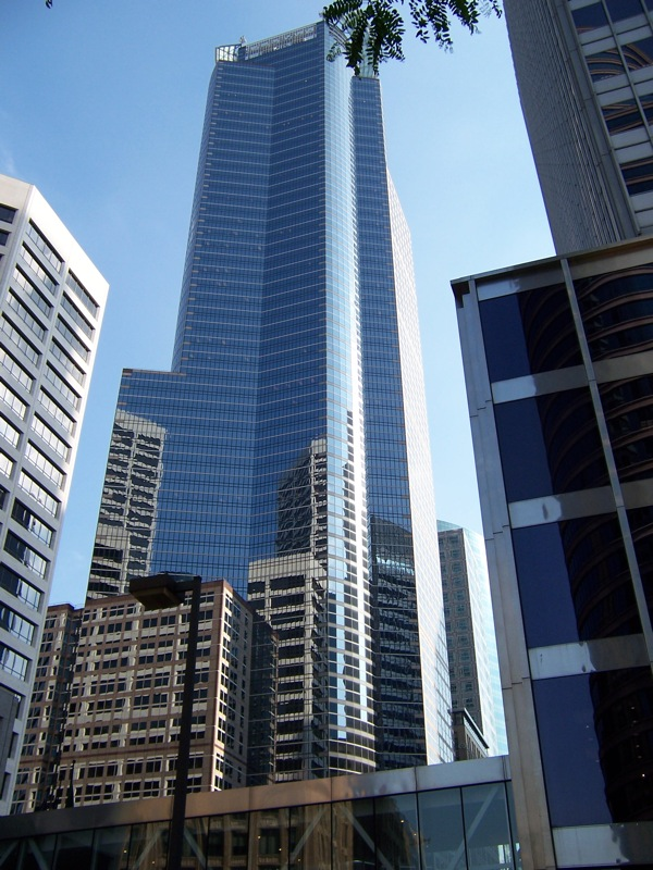 downtown Minneapolis, Minnesota